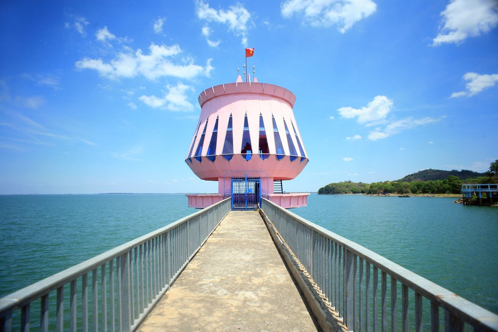 Dương Minh Châu